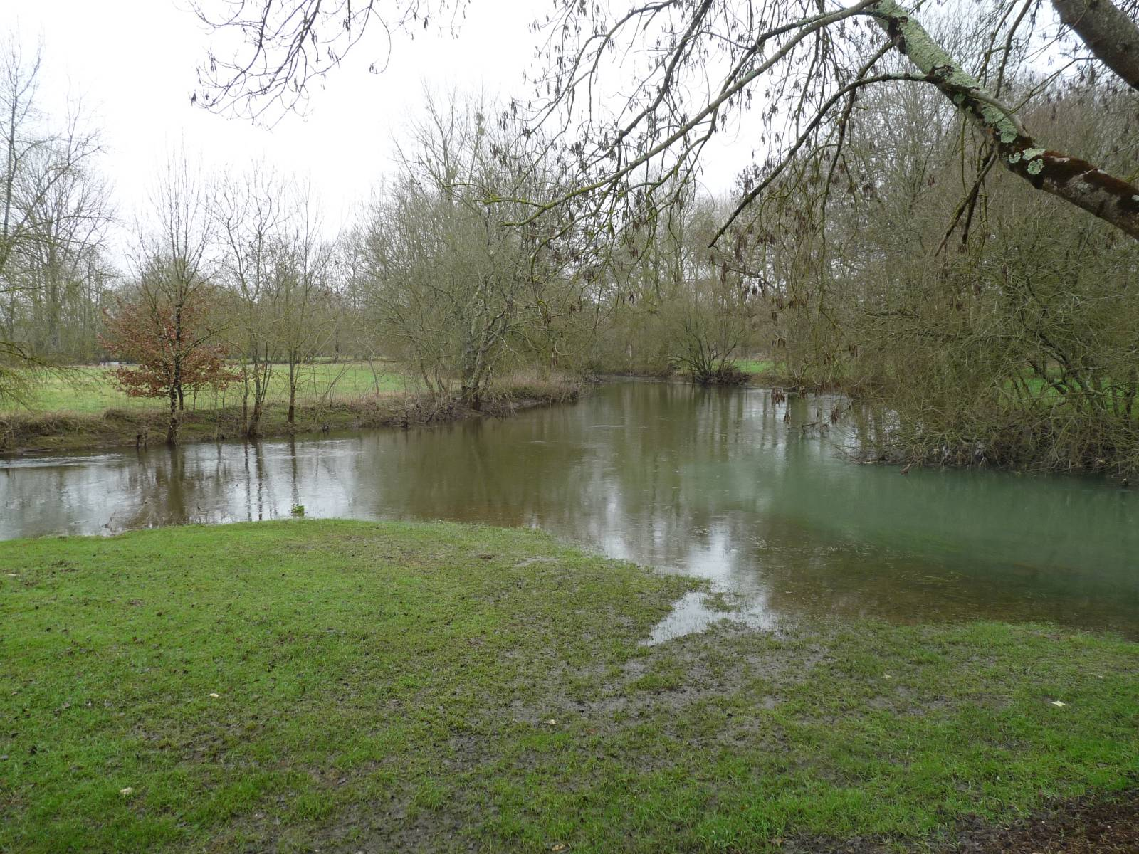 confluence of Tardoire (left) into Bonnieure (right) in winter, at St-Ciers (Charente), SW France